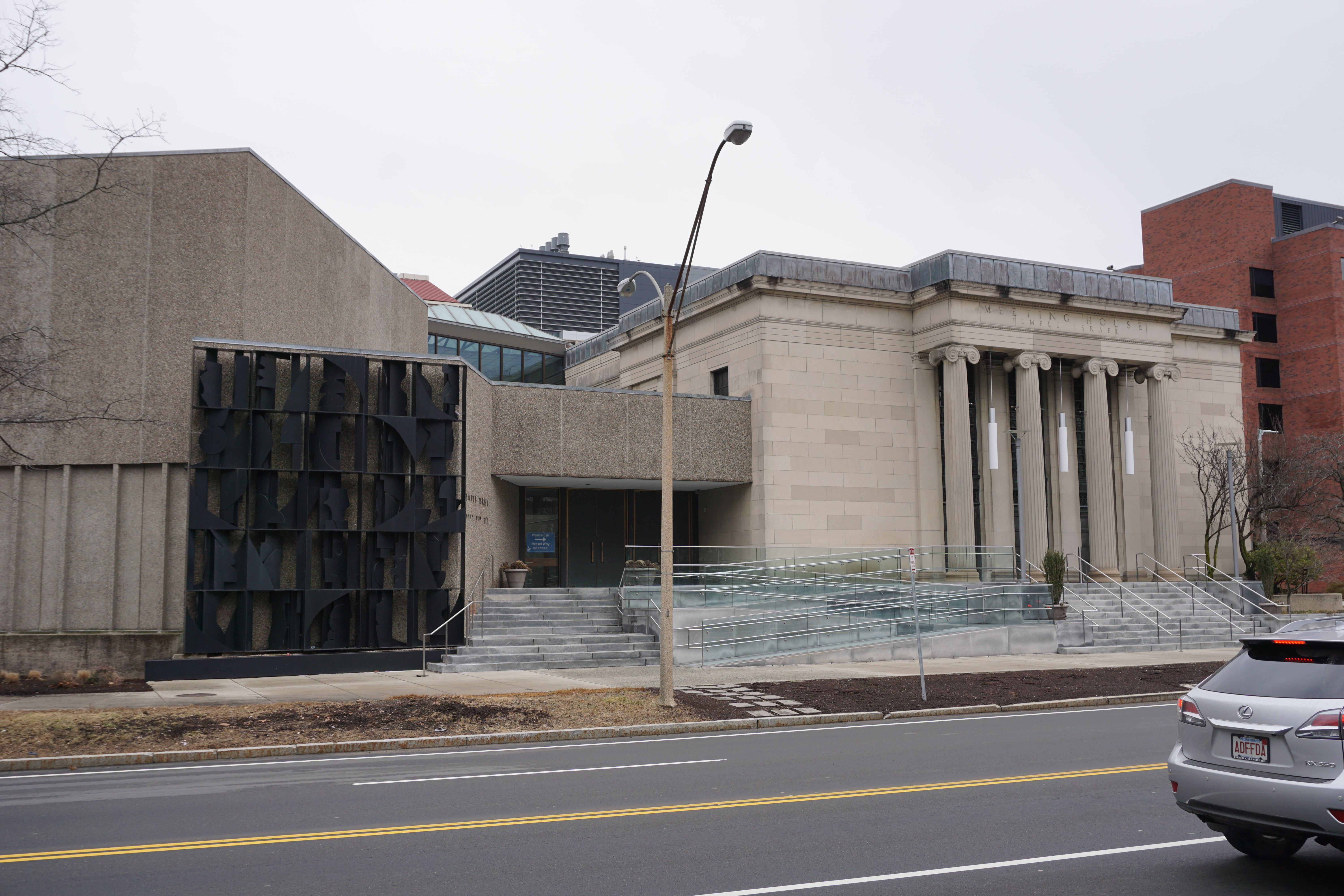 Temple Israel at 477 Longwood Avenue in Boston, Massachusetts (USA) on Feb 12 2018.